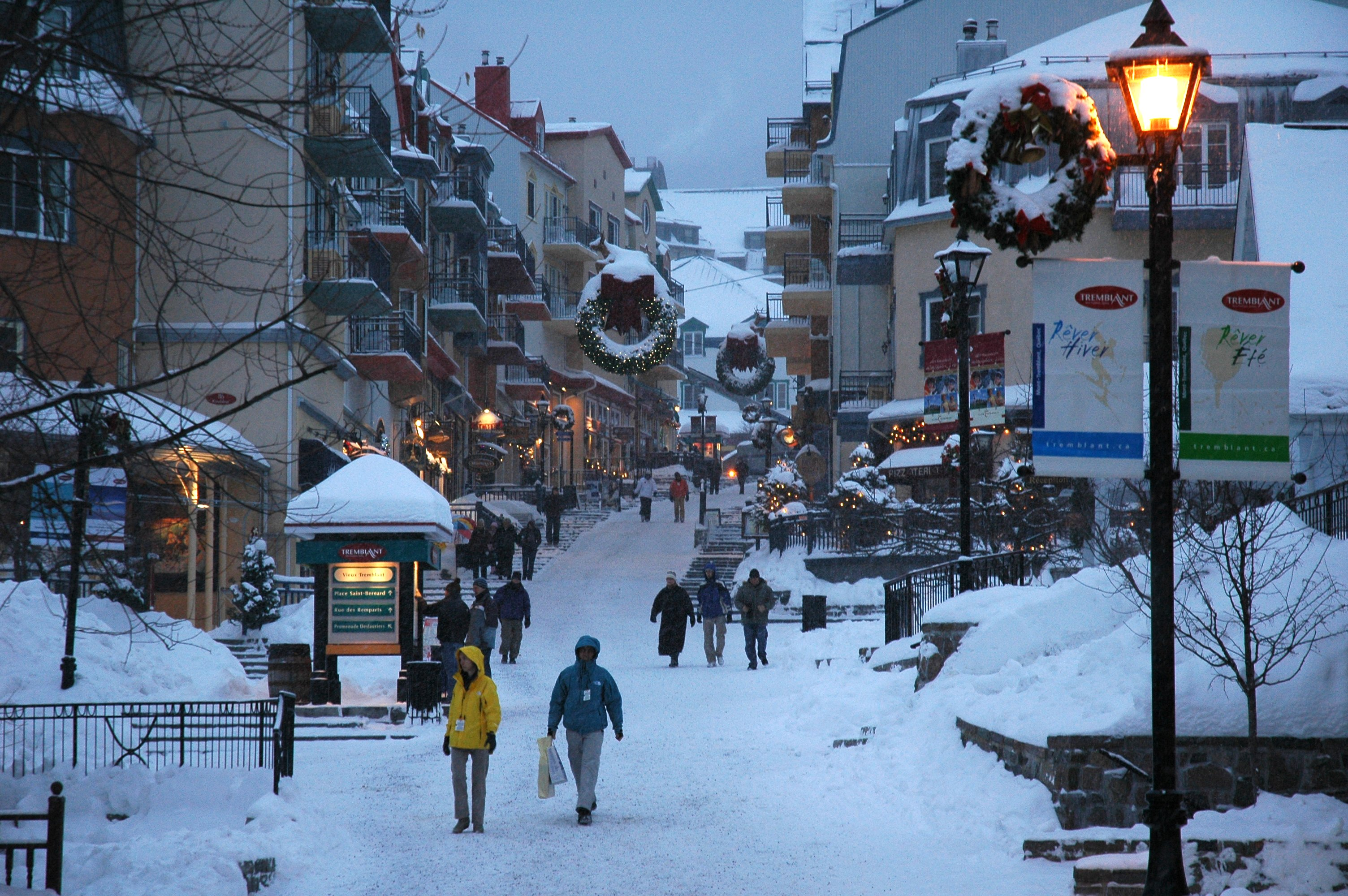 Ski resort street at dusk, Mont-Tremblant.